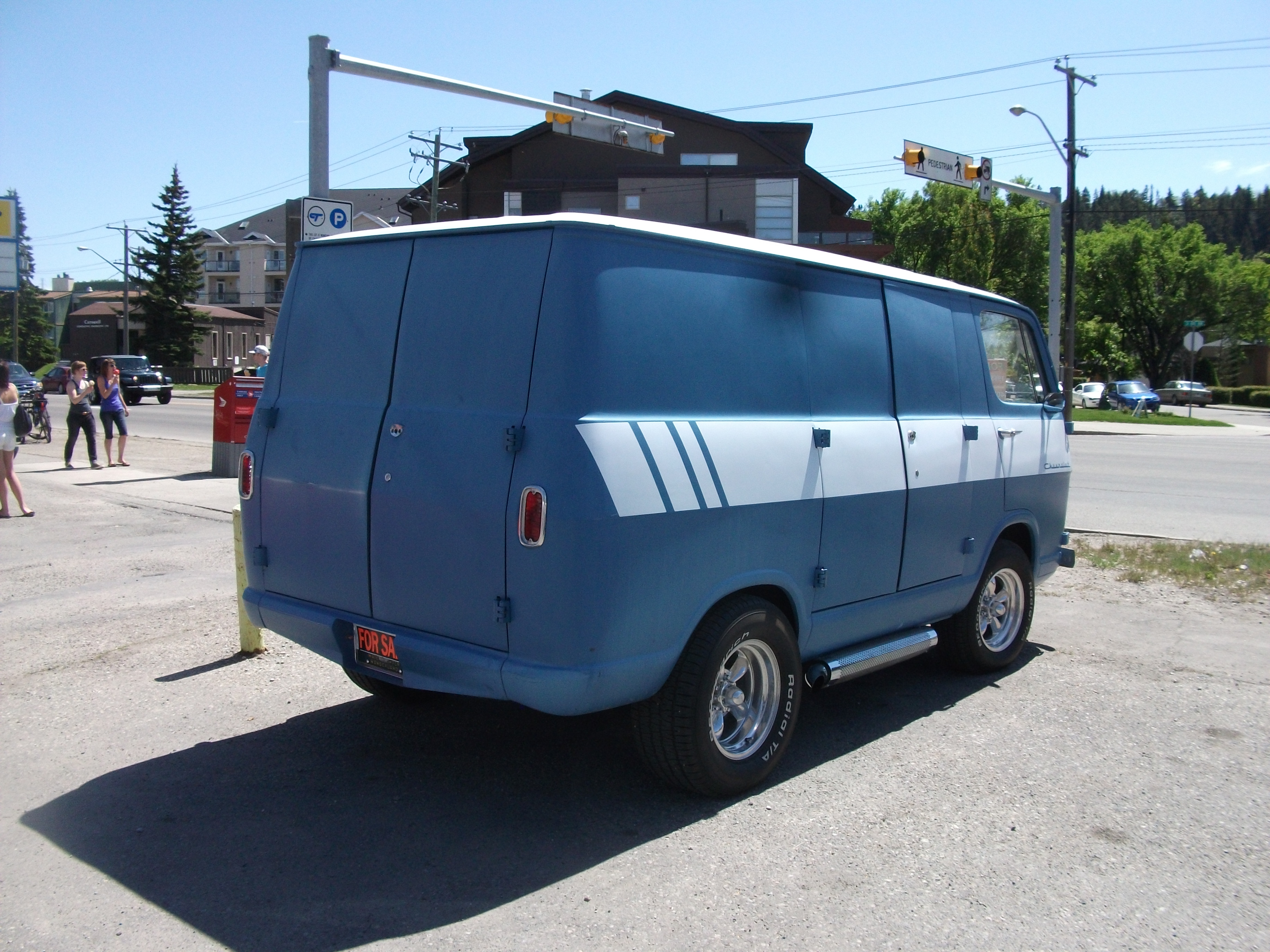 1965 Chevrolet Van with aluminum rims, side pipes and a racing stripe.